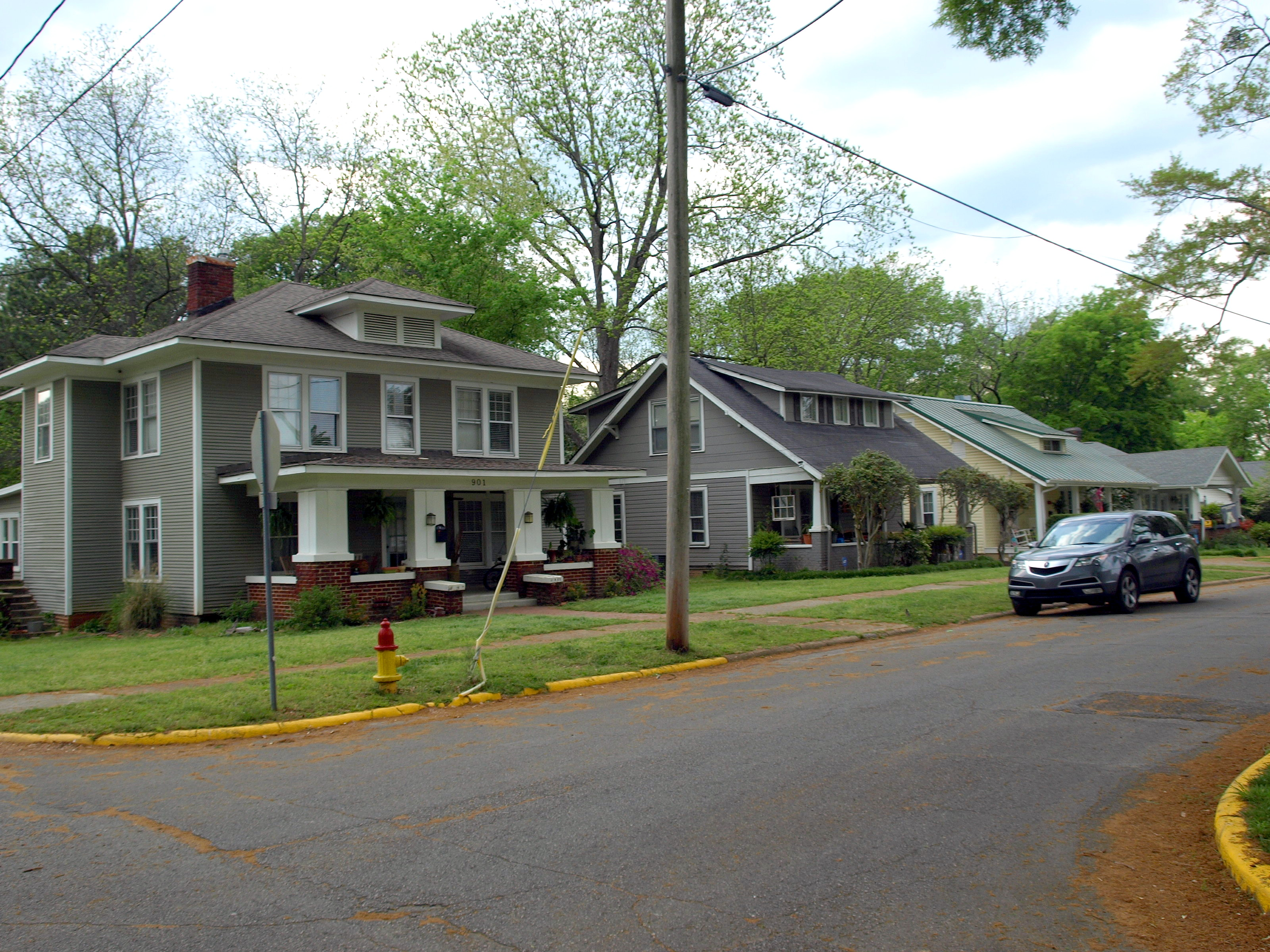 901-913 Sherrod Ave in Florence, Alabama, part of the College Place Historic District, listed on the National Register of Historic Places.